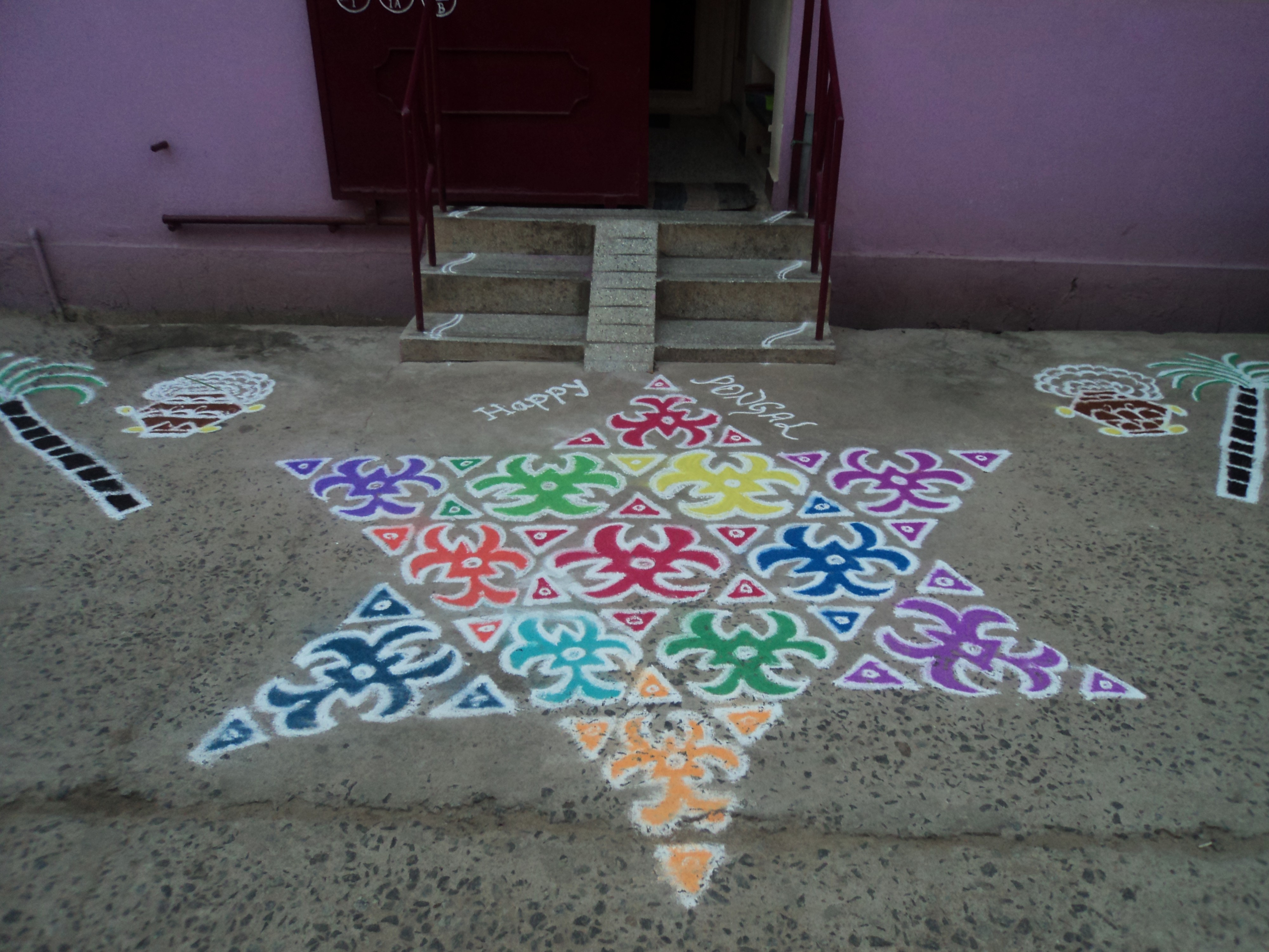 The kolam's of Pongal festival in Attur town, Salem district, Tamil Nasdu